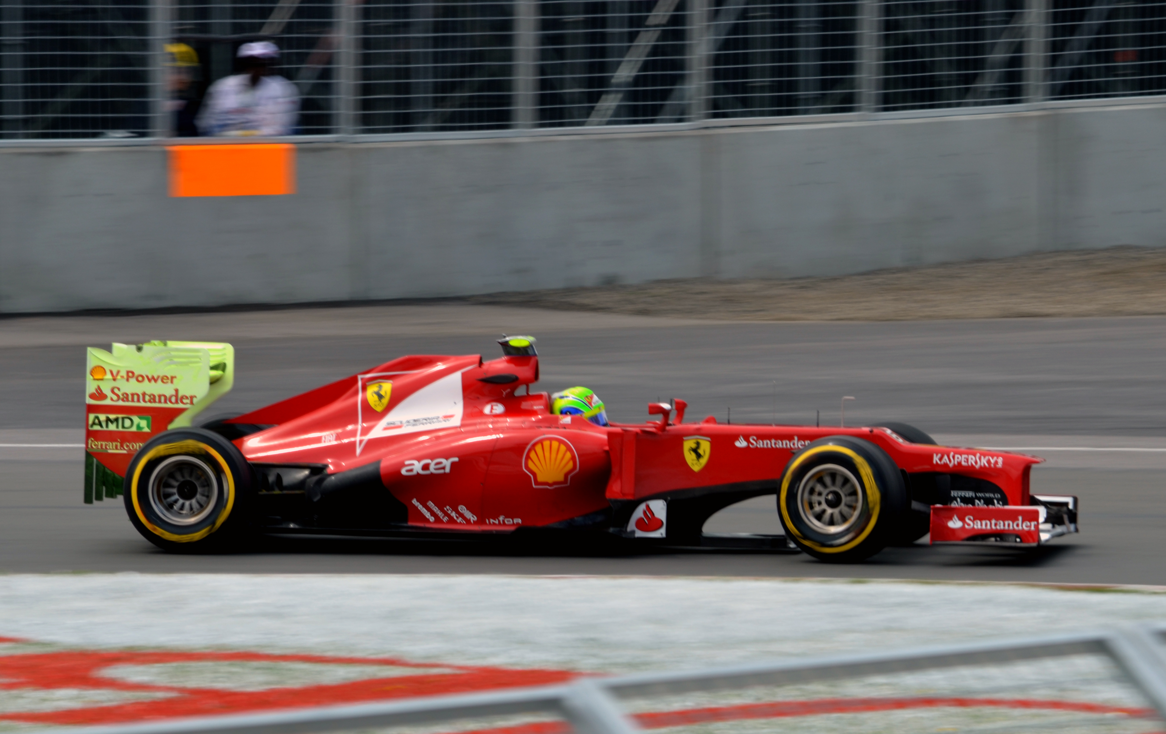 Felipe Massa in the Ferrari F2012 at L'Epingle hairpin corner of Circuit Gilles Villeneuve during second practice for the 2012 Canadian Grand Prix.